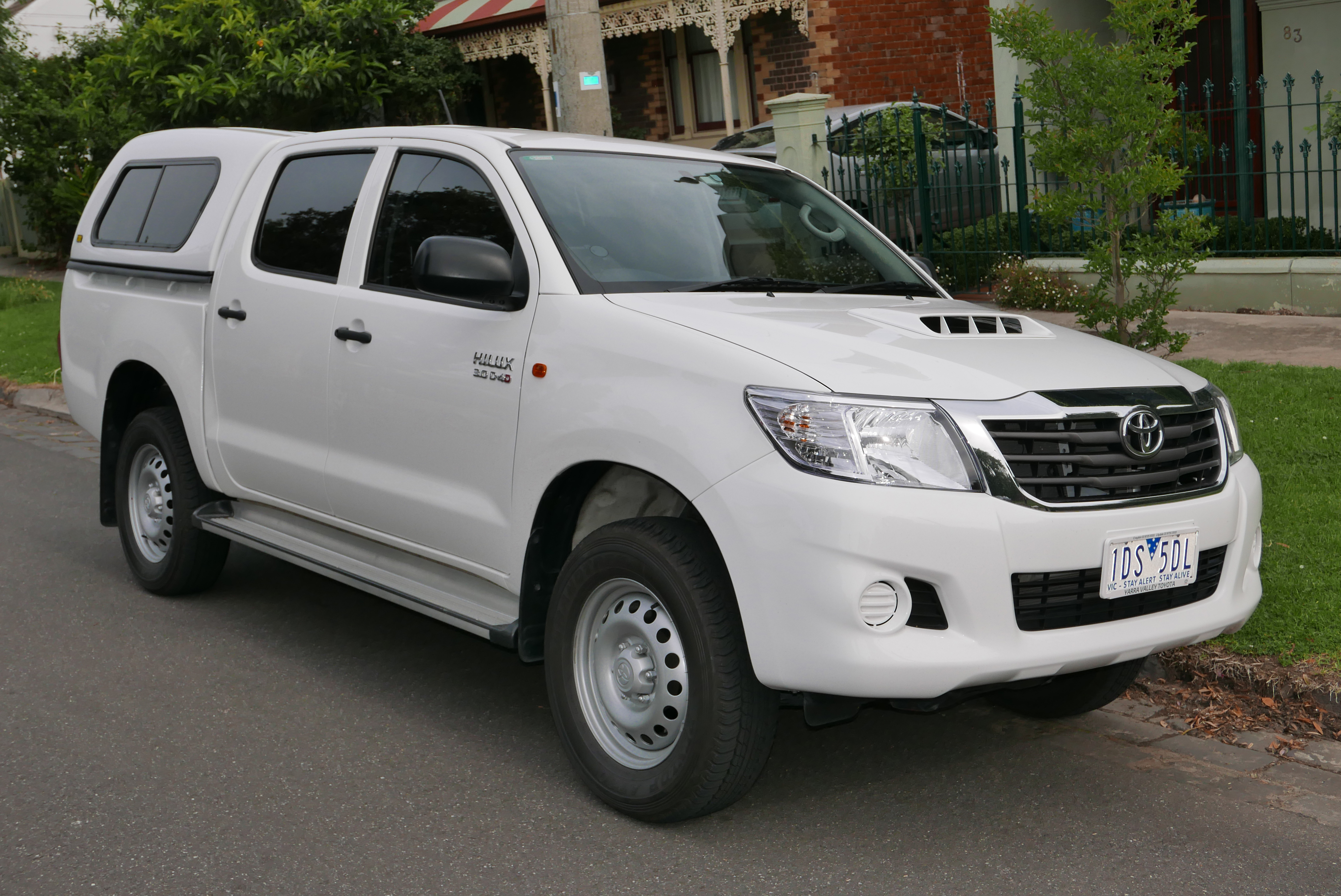 2014 Toyota HiLux (KUN26R MY14) SR 4-door utility. Photographed in Ascot Vale, Victoria, Australia. Vehicle registration enquiry resultsJurisdictionVictoriaRegistration1DS5DLChassis codeMR0FZ22GX01088623Engine code1KDA618478Compliance date2014-10Year of manufacture2014